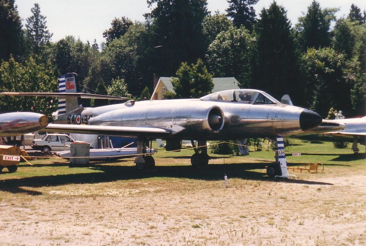 Avro CF-100 Canuck Mk 3 at the Canadian Museum of Flight in South Surrey, BC on 23 July 1988.